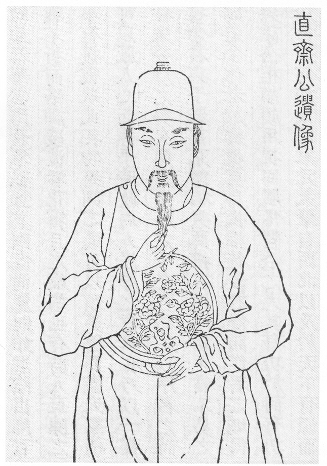 Portrait of Sadula from a modern reprint of Sikuquanshu (18th cent.) edition of Yanmenji (Collected poems of Sadula)14th cent.